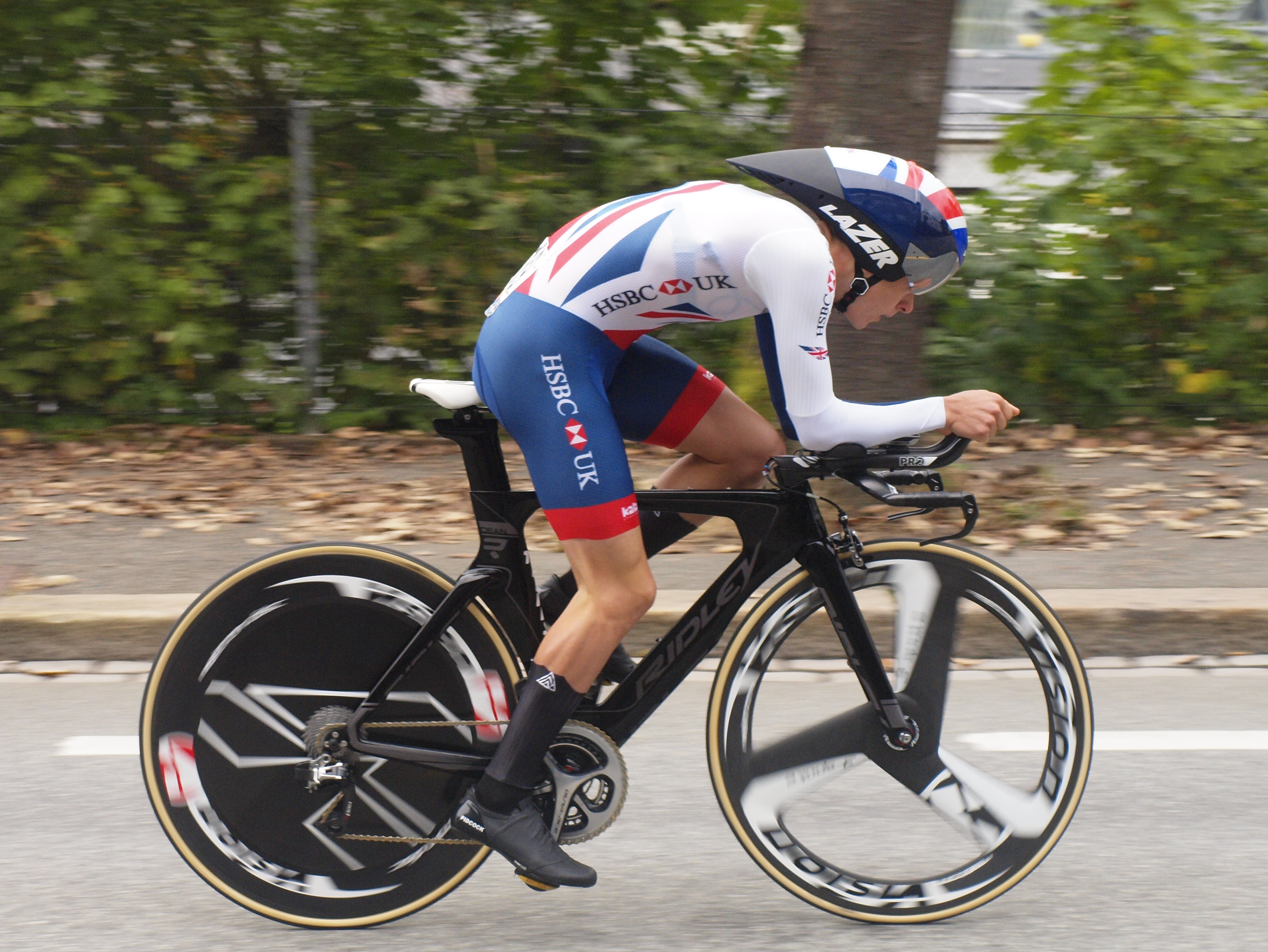 Thomas Pidcock at the 2017 UCI World Championships